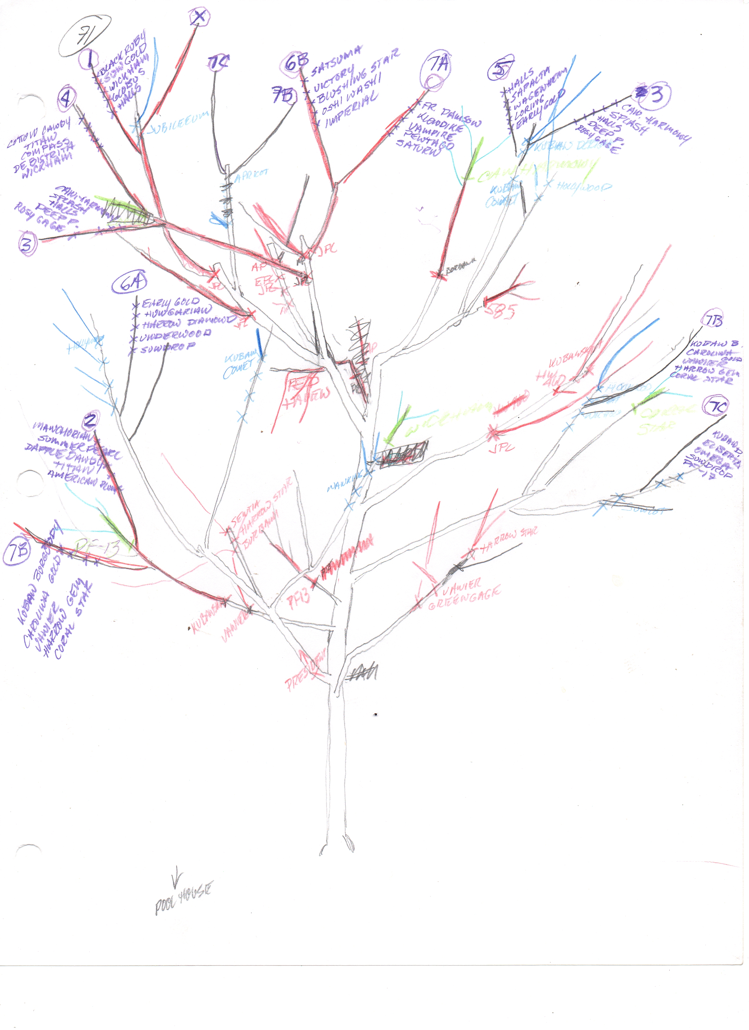 Tree of 40 Fruit by Sam Van Aken courtesy Ronald Feldman Fine Art - artist's diagram for tree 71.